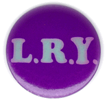 Button of the Liberal Religious Youth. I don't recall who originally designed the badges, but they were released into the public domain decades ago.